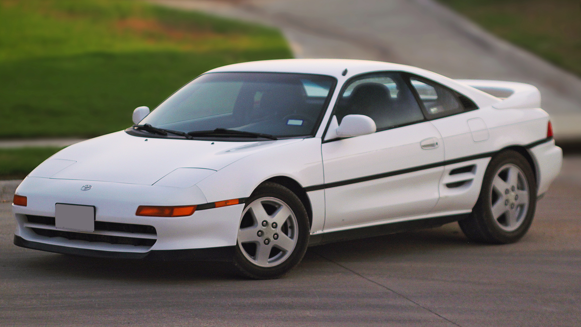 1993 Toyota MR2 Hardtop.